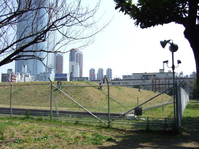 Aoyama Park in Tokyo, Japan